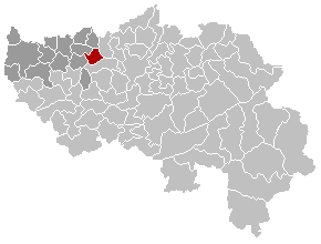 Map, municipality belgium Fexhe-le-Haut-Clocher